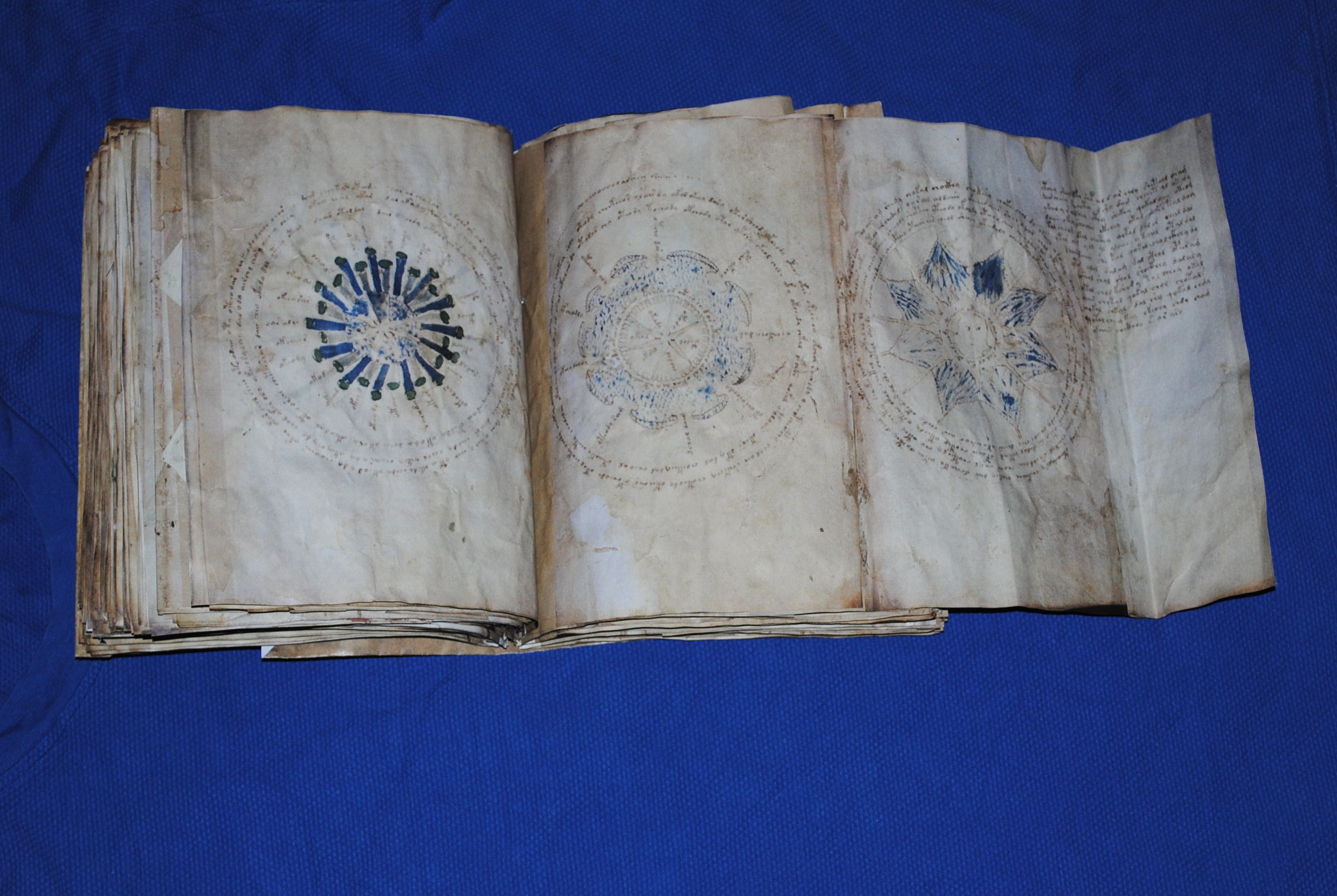 Voynich Manuscript (the picture shows only a copy of the manuscript, not the original)